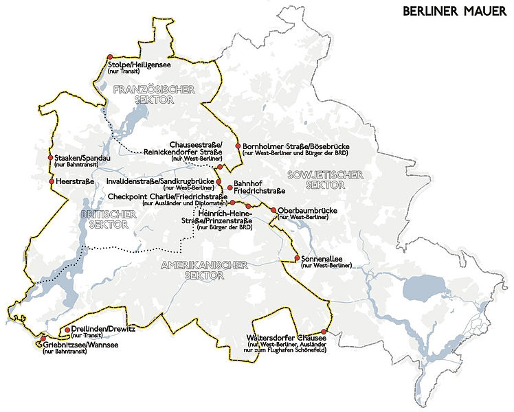 Placement of Berlin Wall and the border of West Berlin before 1989.